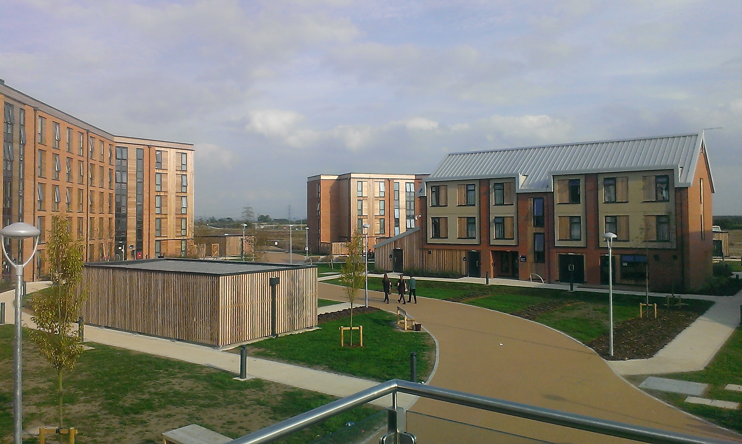 Newly opened accommodation at the University of York, Constantine College. September 2014